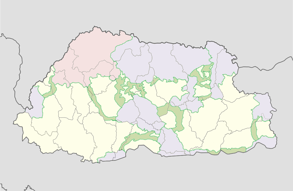 Jigme Dorji protected area location map